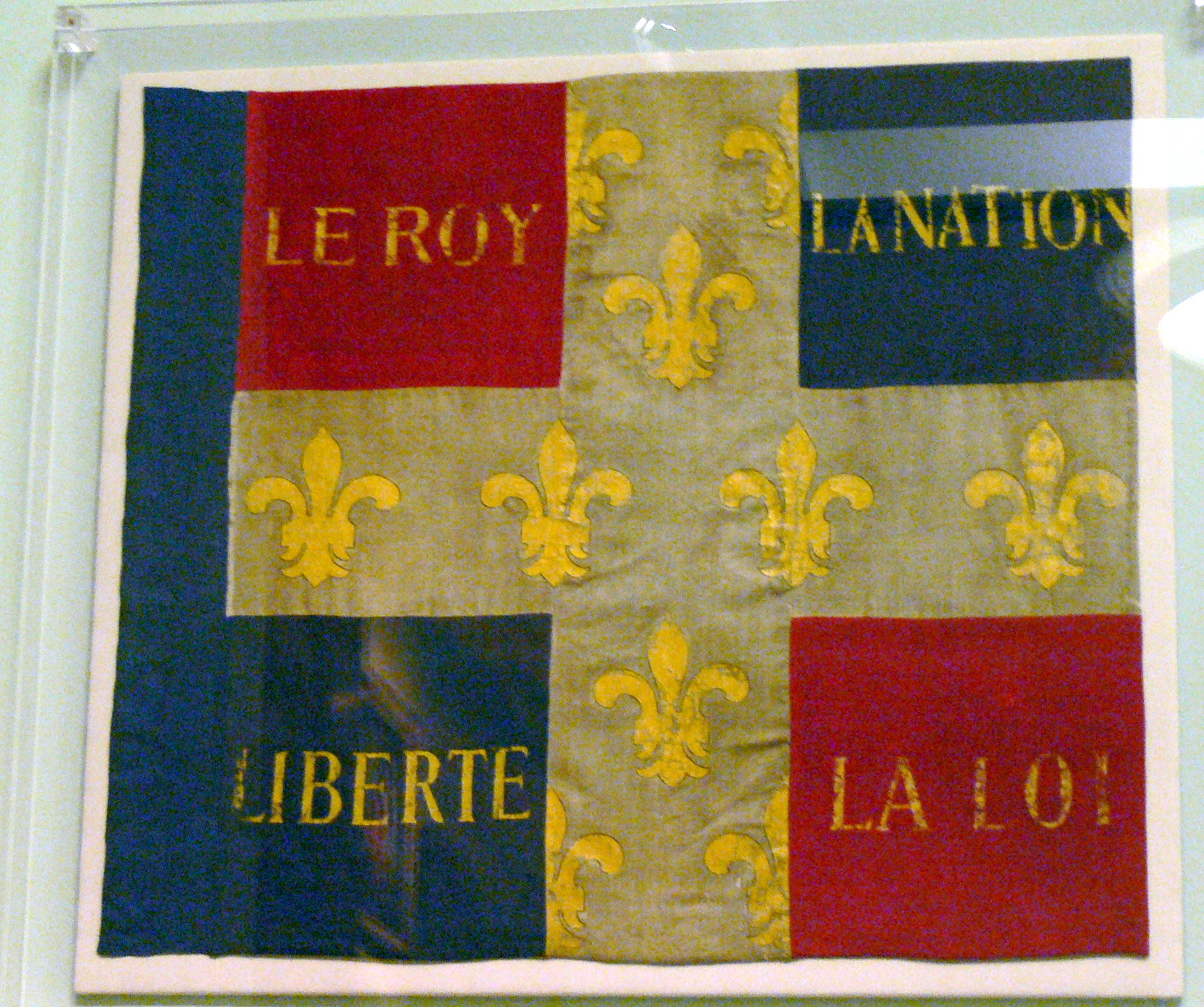 German Historical Museum ( Berlin ). French infantry flag from the revolutionary period ( 1789-1793 )